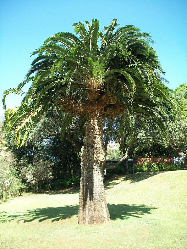 A large stem of Encephalartos woodii at the Durban Botanic Gardens